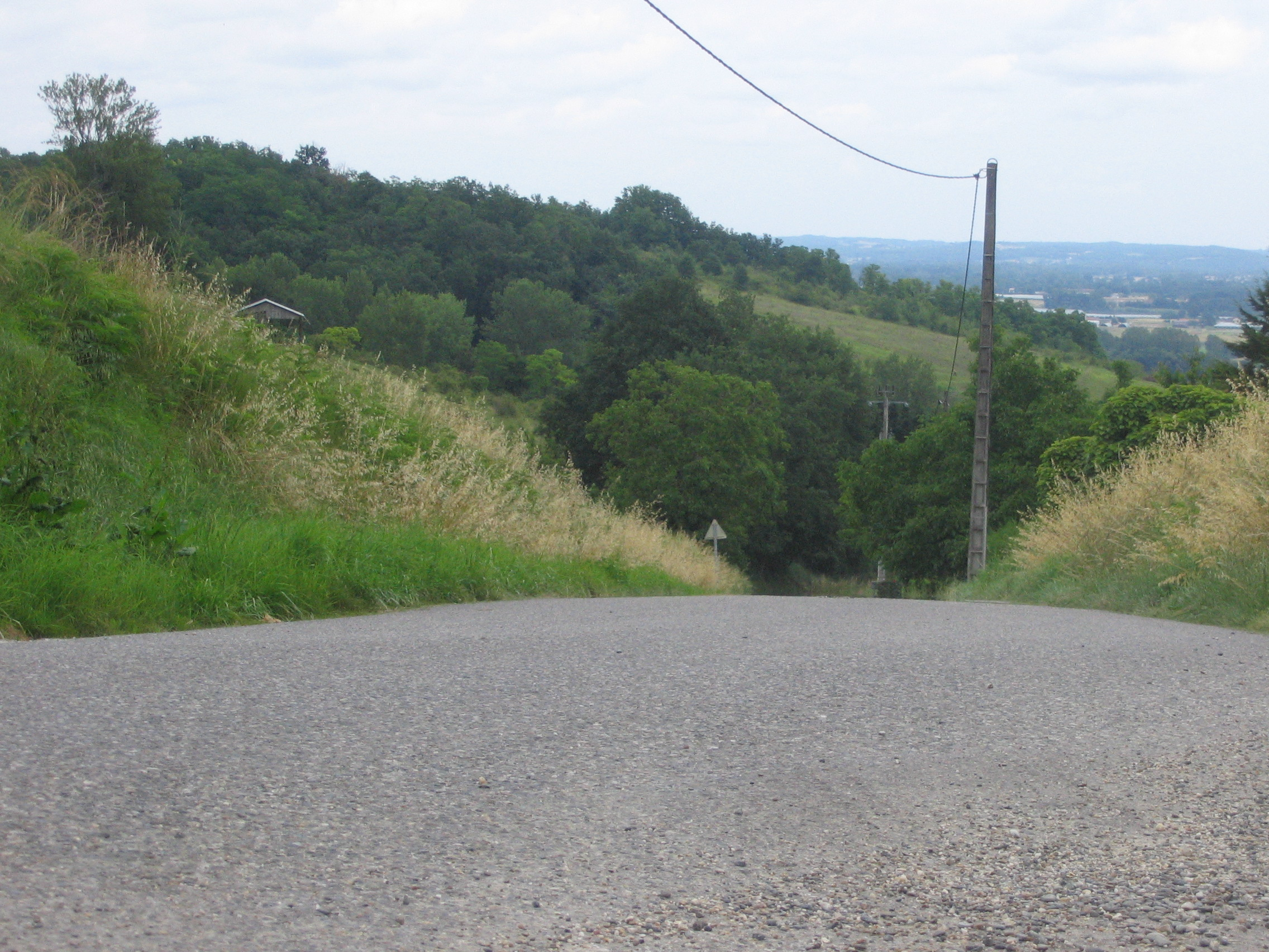 The Tour du Tarn-et-Garonne more prestigious climb, the Côte de Vialette.